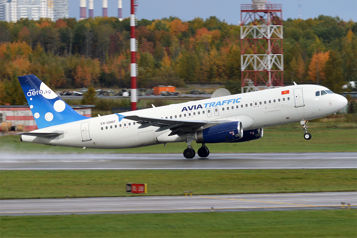 Avia Traffic Company, EX-32007, Airbus 320-200